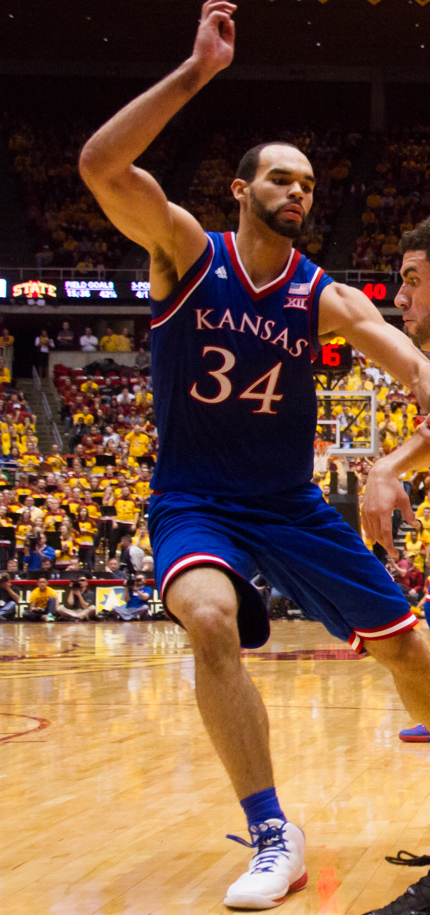 Iowa State pulled the upset, and beat the Kansas University Jayhawks 85-72 Jan 25 in Hilton Coliseum